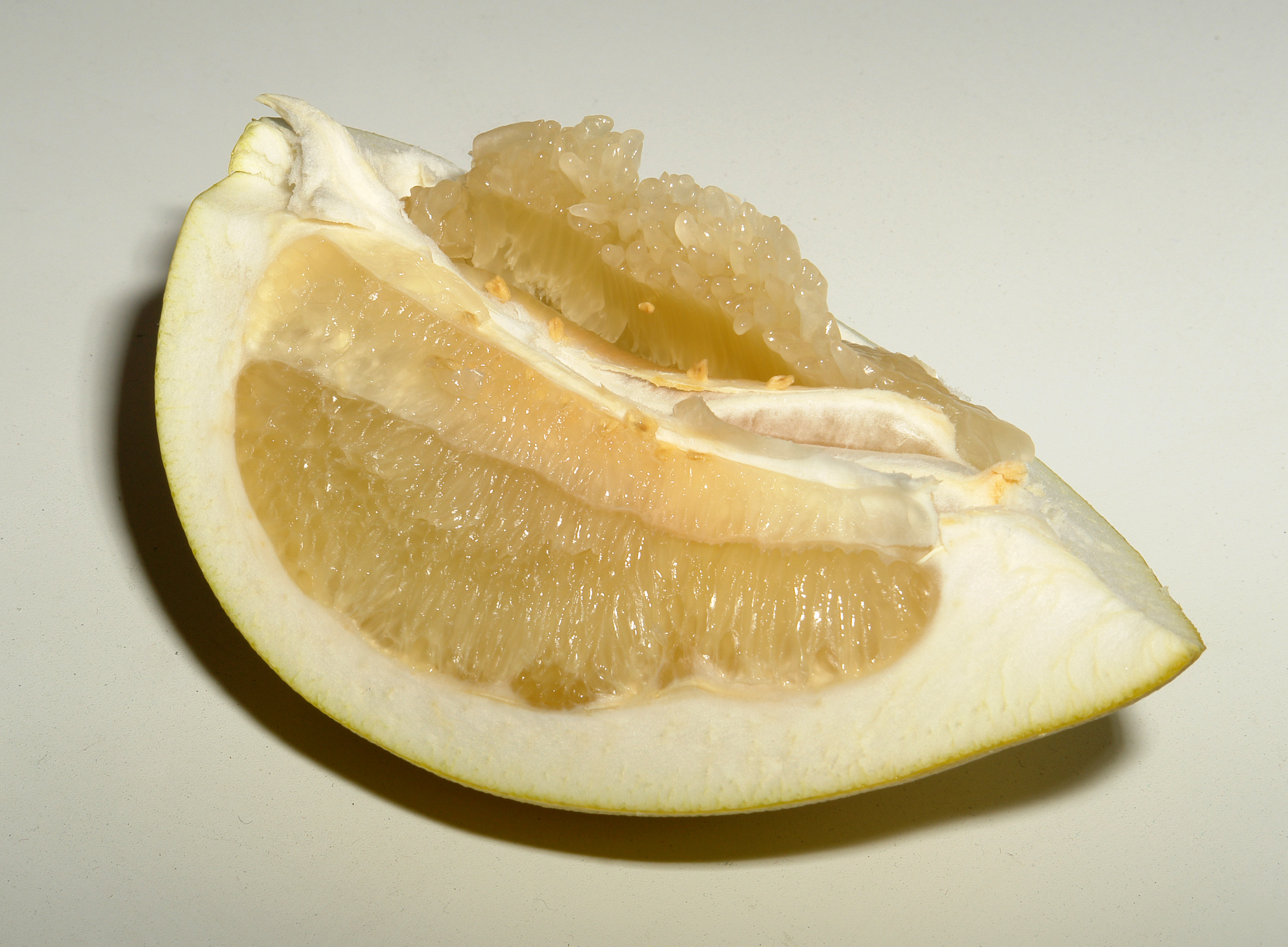 Piece of Pomelo (Citrus maxima)